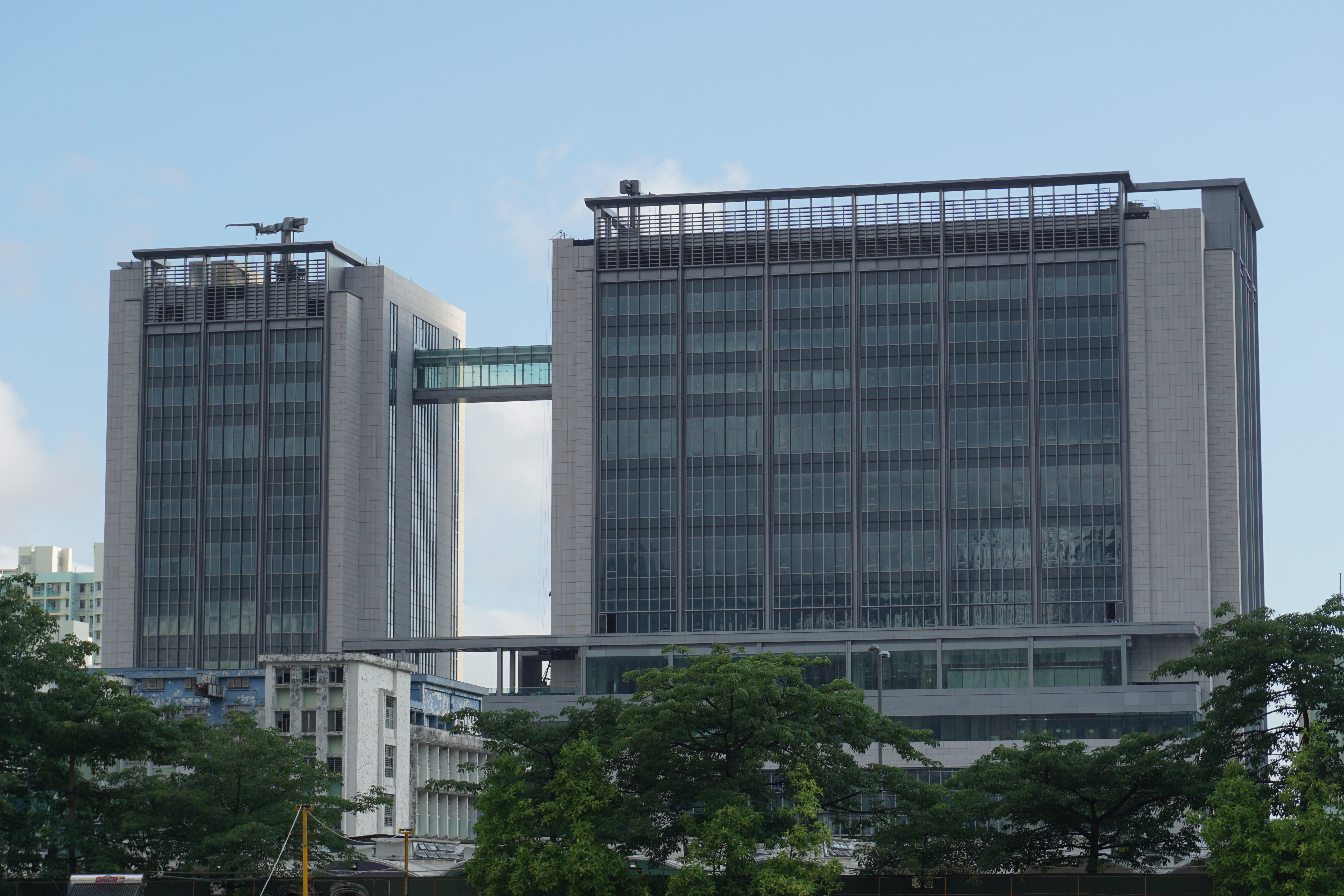 West Kowloon Law Courts Building in Cheung Sha Wan, Hong Kong.